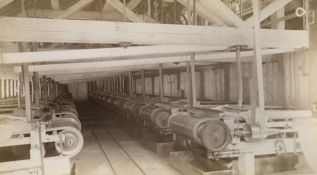 Title: Treadwell's Gold Mine,view of mill interior Creator: Partridge Photo. Date: 1887 Place: Alaska Part Of: Partridge's Alaska photographs Physical Description: 1 photographic print: 11 x 19 cm. on 14 x 22 cm. mount File: ag1982_0092_08_goldmine_sm_opt.jpg Rights: Please cite Southern Methodist University, Central University Libraries, DeGolyer Library when using this image file. A high-quality version of this file may be obtained for a fee by contacting . For more information, see: View U.S. West: Photographs, Manuscripts, and Imprints